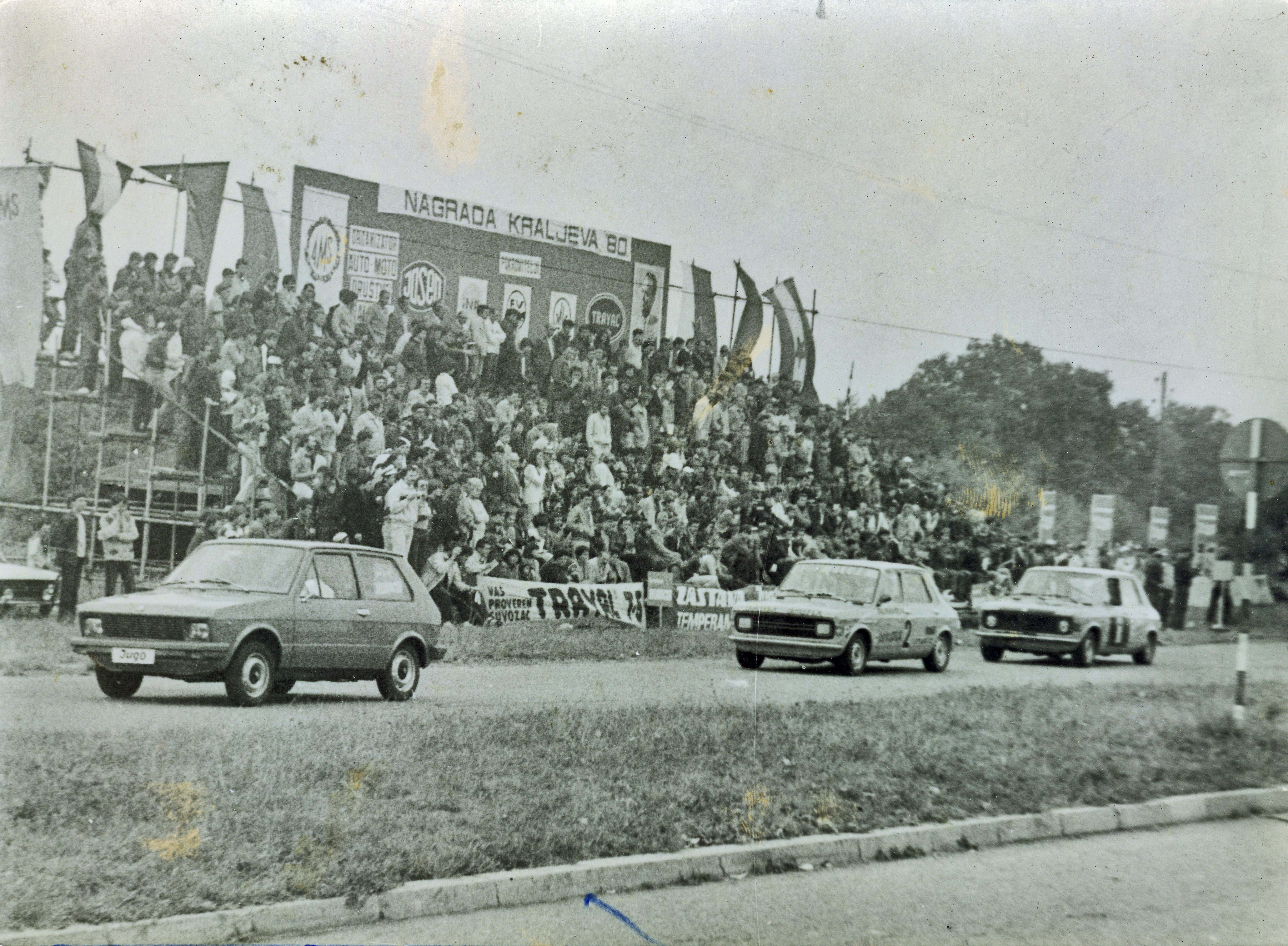 Car Race Kraljevo Award 1980